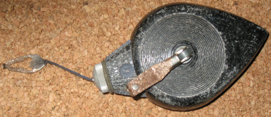 Kridtsnor, snoreslag. This file was made by B. M. Askholm, Please credit this: B. Askholm photo, 2006 An email to B. Mathias at baskholm(--) would be appreciated too.